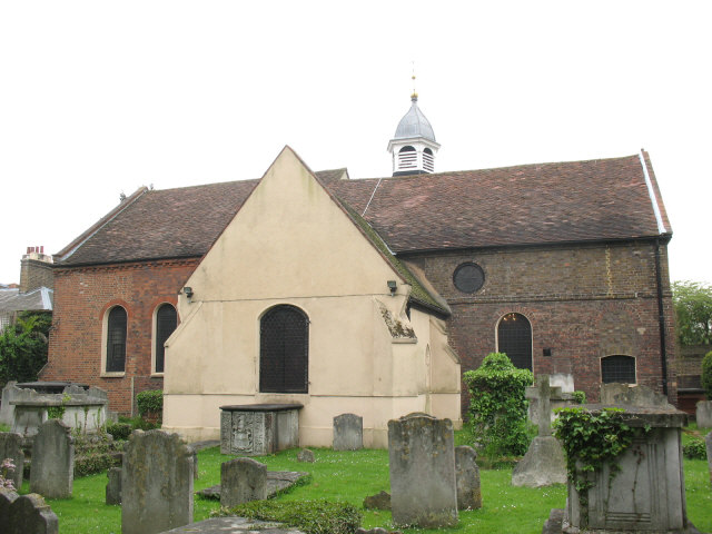 St Peter's parish church, Petersham. This parish church is grade II* listed. The oldest part (the chancel, in light coloured render) is 13th century, but most of it dates from the 18th and 19th centuries. Despite appearances, the placename Petersham is not named for the church or vice-versa but was originally Badricksham or Patricksham.